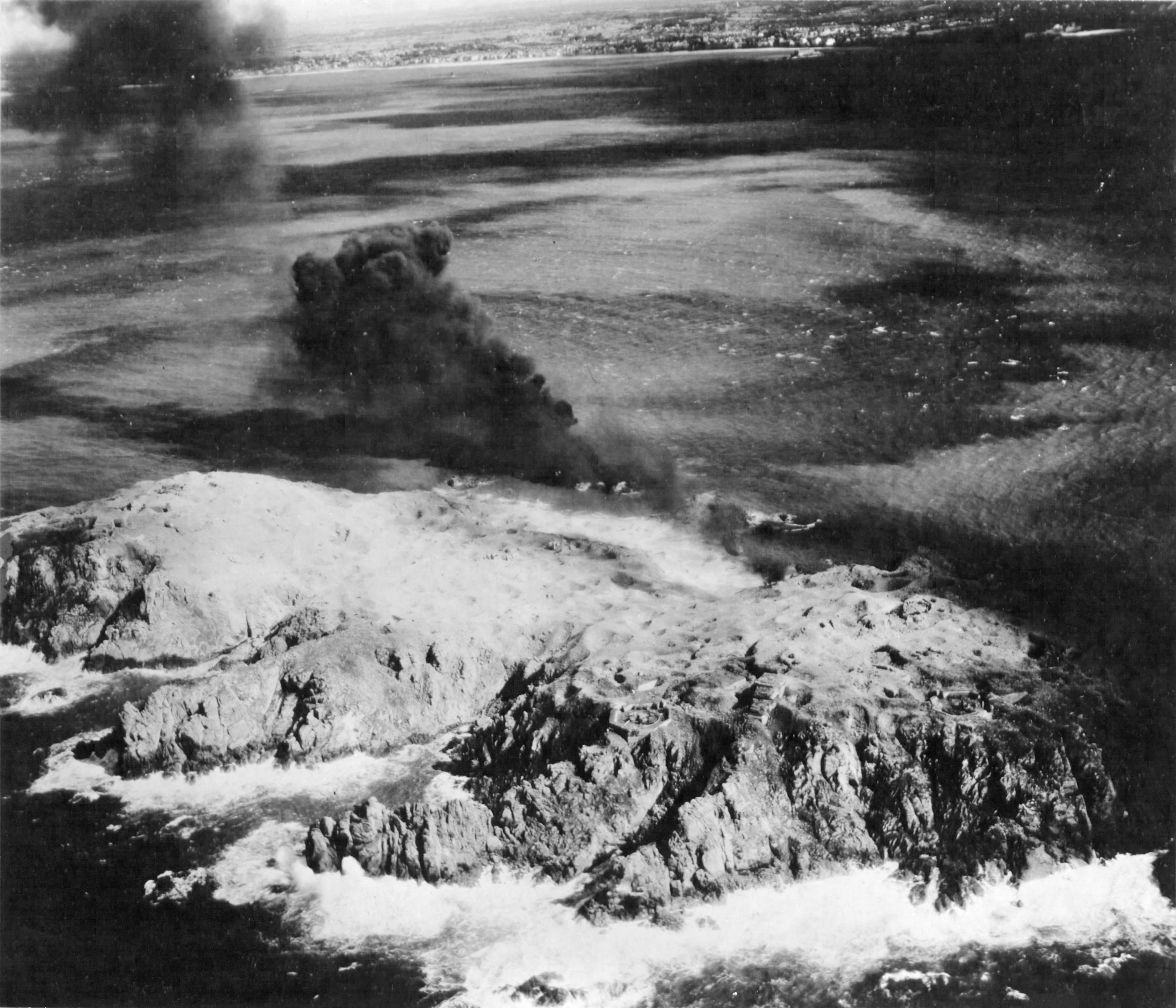 Photograph showing the aftermath of a bombing on Cézembre Island, off Saint Malo, in August 1944. Most of the island ground has been damaged and some points are still emiting smoke. The German and Italian garrison surrendered on September 1944 after three weeks of intense allied bombings